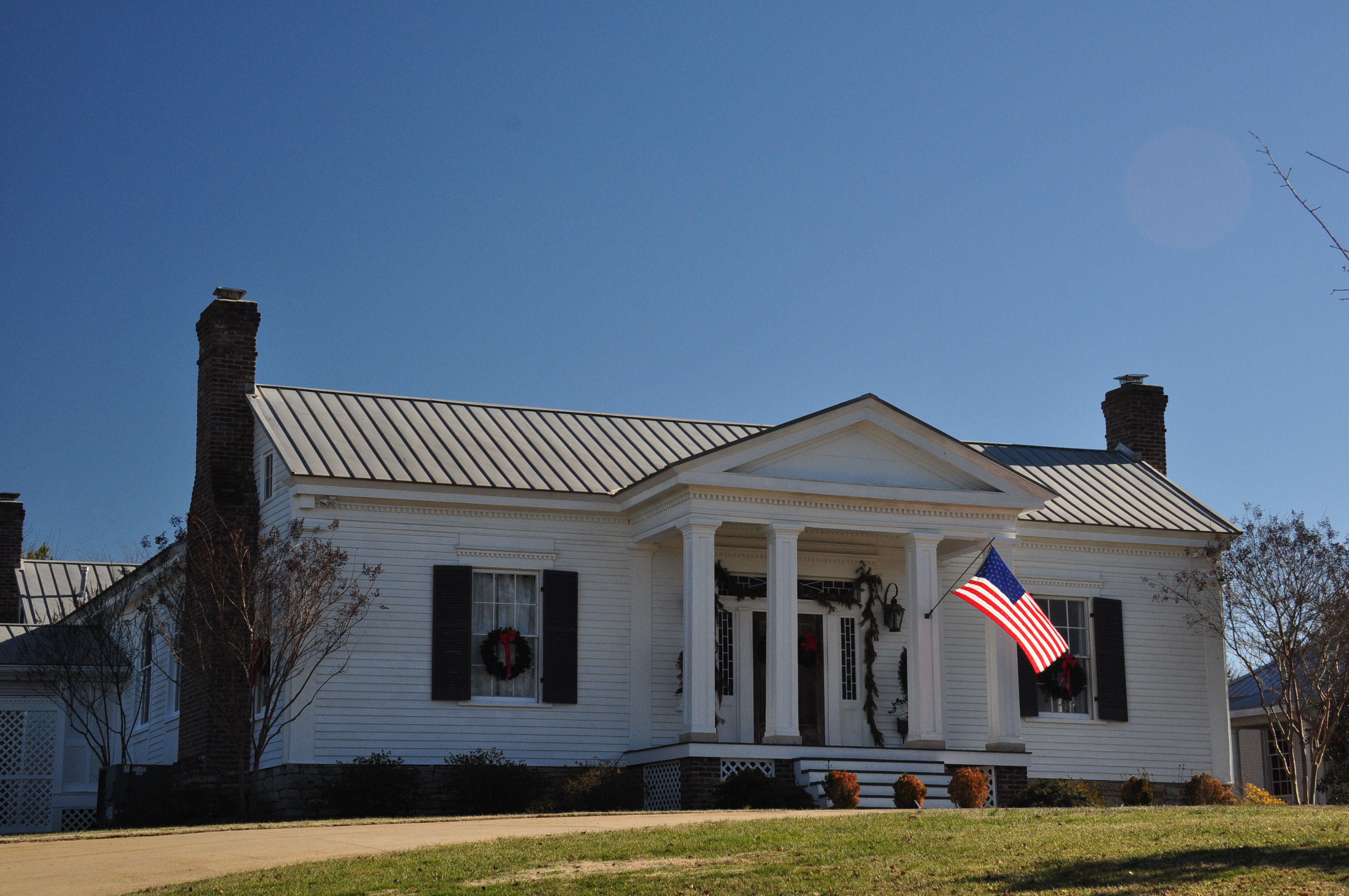 Copeland Whitfield House, Bee Line Highway, Pulaski, Tennessee